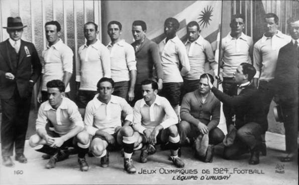 Uruguay national football team that won its first Gold medal at the 1924 Summer Olympics. Standing: Scarone, Romano, Cea, Mazali, Andrade, Petrone, Vidal and Nasazzi. Bended: Urdinarán, Tomassina and Ghierra.